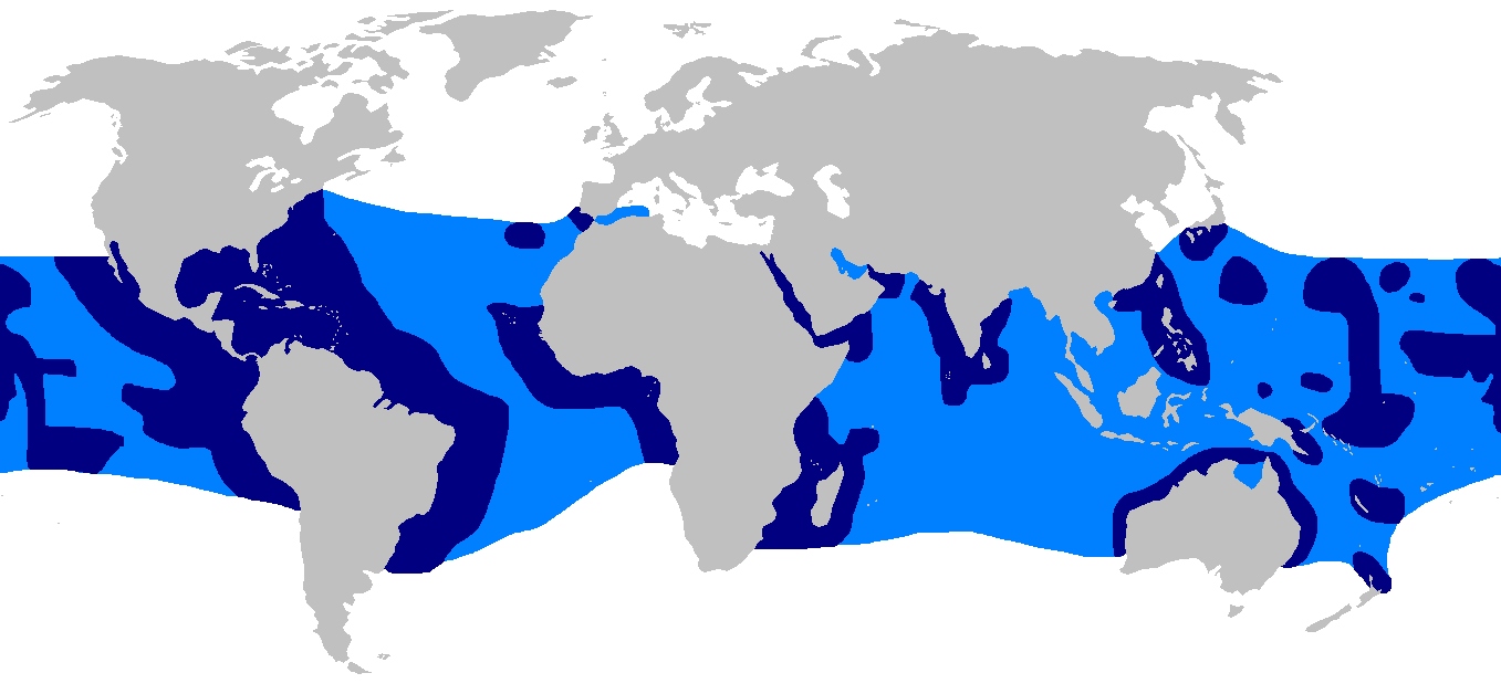 Range of the silky shark (Carcharhinus falciformis), based on Bonfil, R. (2008). "The Biology and Ecology of the Silky Shark, Carcharhinus falciformis". in Camhi, M., Pikitch, E.K. and Babcock, E.A.. Sharks of the Open Ocean: Biology, Fisheries and Conservation. Blackwell Science. pp. 114–127. ISBN 0632059958.